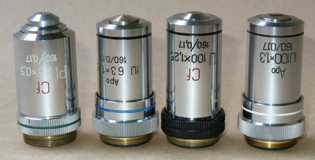 Microscope objectives.